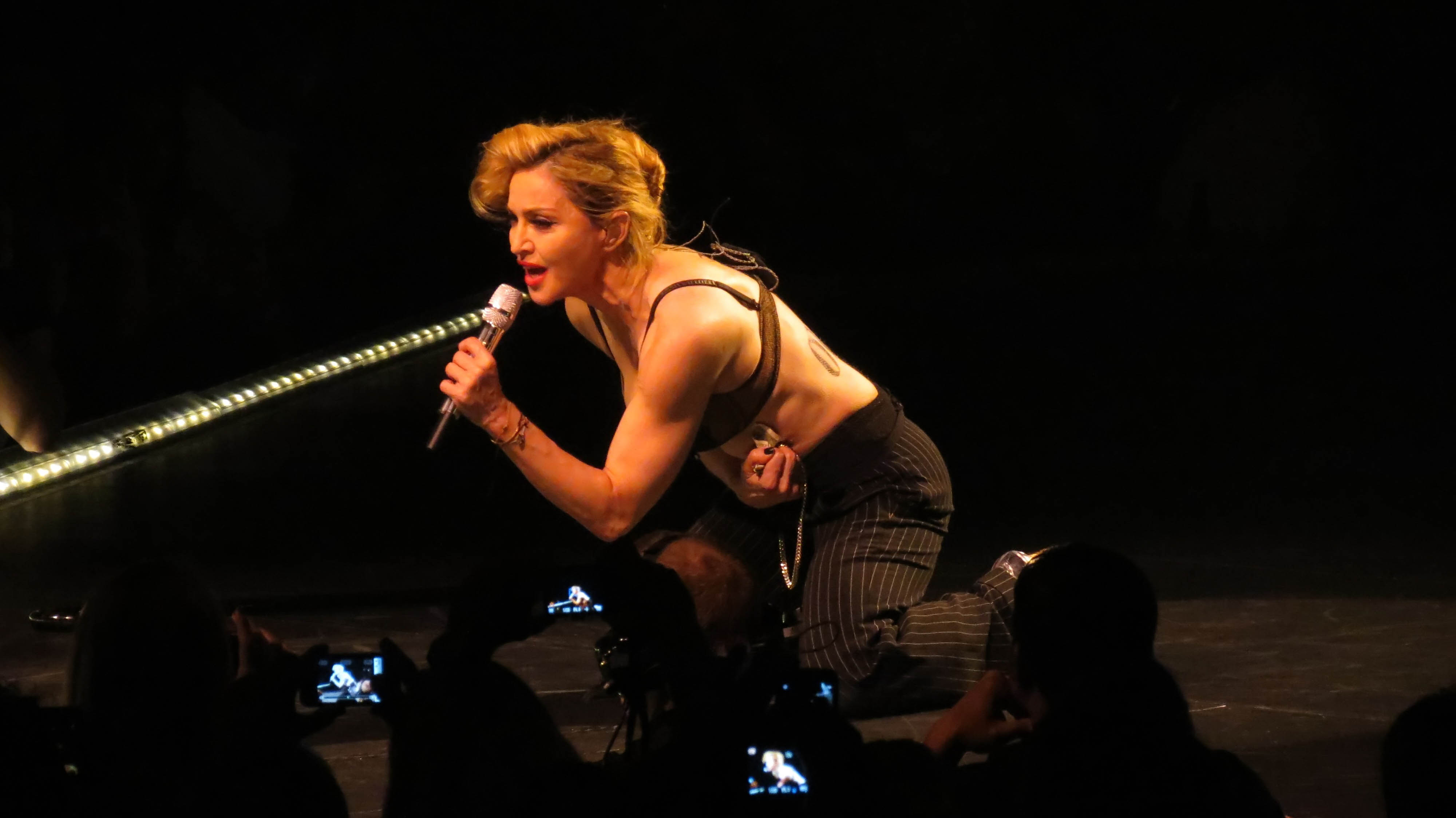 Madonna concert in Seattle